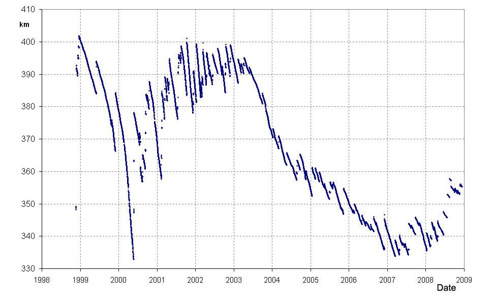 Mean altitude of the International Space Station from November 1998 until 2009